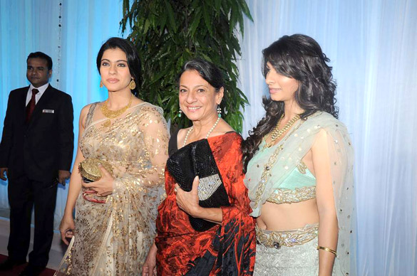 Kajol, Tanuja, Tanisha Mukherjee at Esha Deol's wedding reception